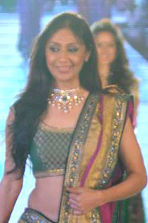 Sunita Gowariker walks for Manish Malhotra & Shaina NC's show for CPAA